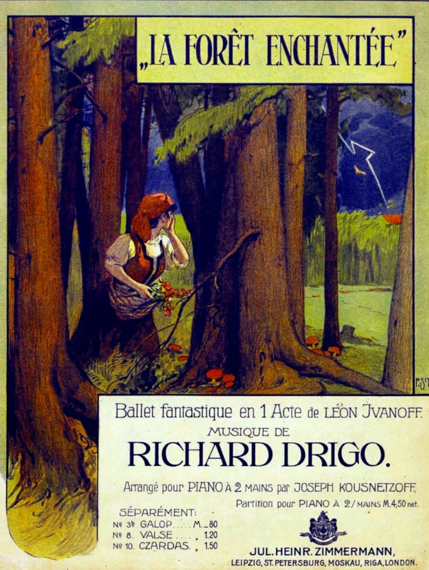 Frontispiece of the piano reduction for the composer Riccardo Drigo's score for the choreographer Lev Ivanov's 1887 ballet "La Forêt enchantée" (eng: "The Enchanted Forest" / rus: «Очарованный лес»).